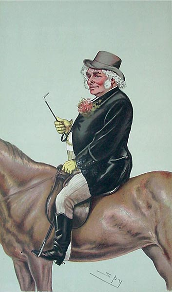 Caricature of Sir John Bennett, British clockmaker.